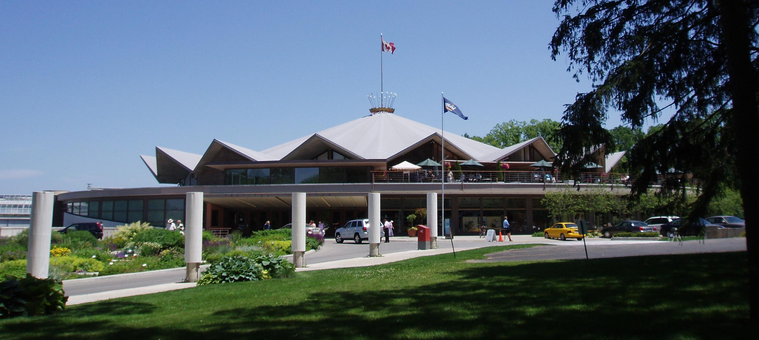 Festival Theatre, Stratford Festival of Canada